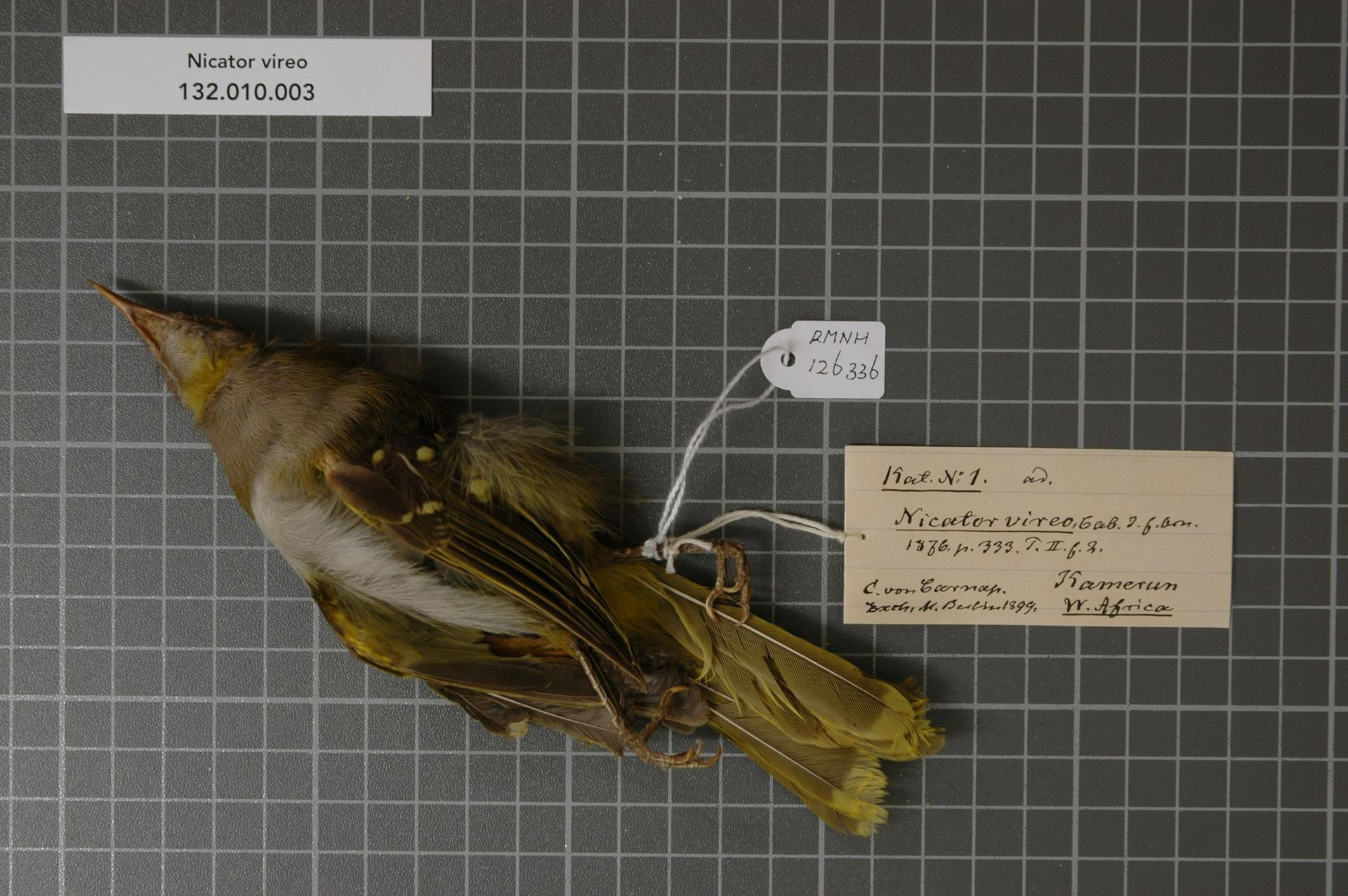 Nicator vireo Cabanis, 1876